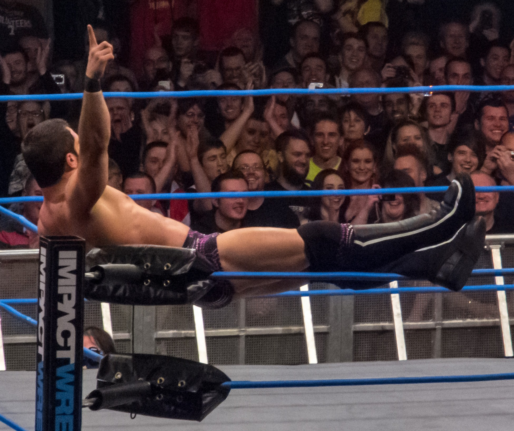 Austin Aries poses during a match at the Impact! TV Tapings in Wembley, England on January 26, 2013.